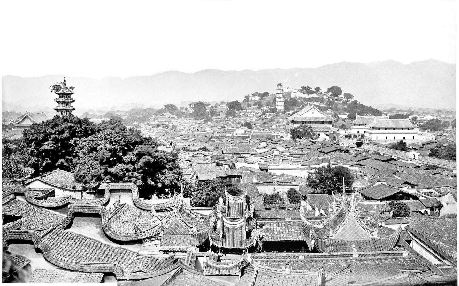 The Eastward View of Fuzhou (Foochow) from Black Stone Hill, in the late Qing Dynasty